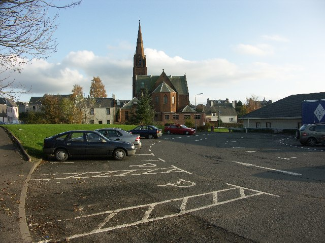 Cumnock Trinity Church, Cumnock, Ayrshire